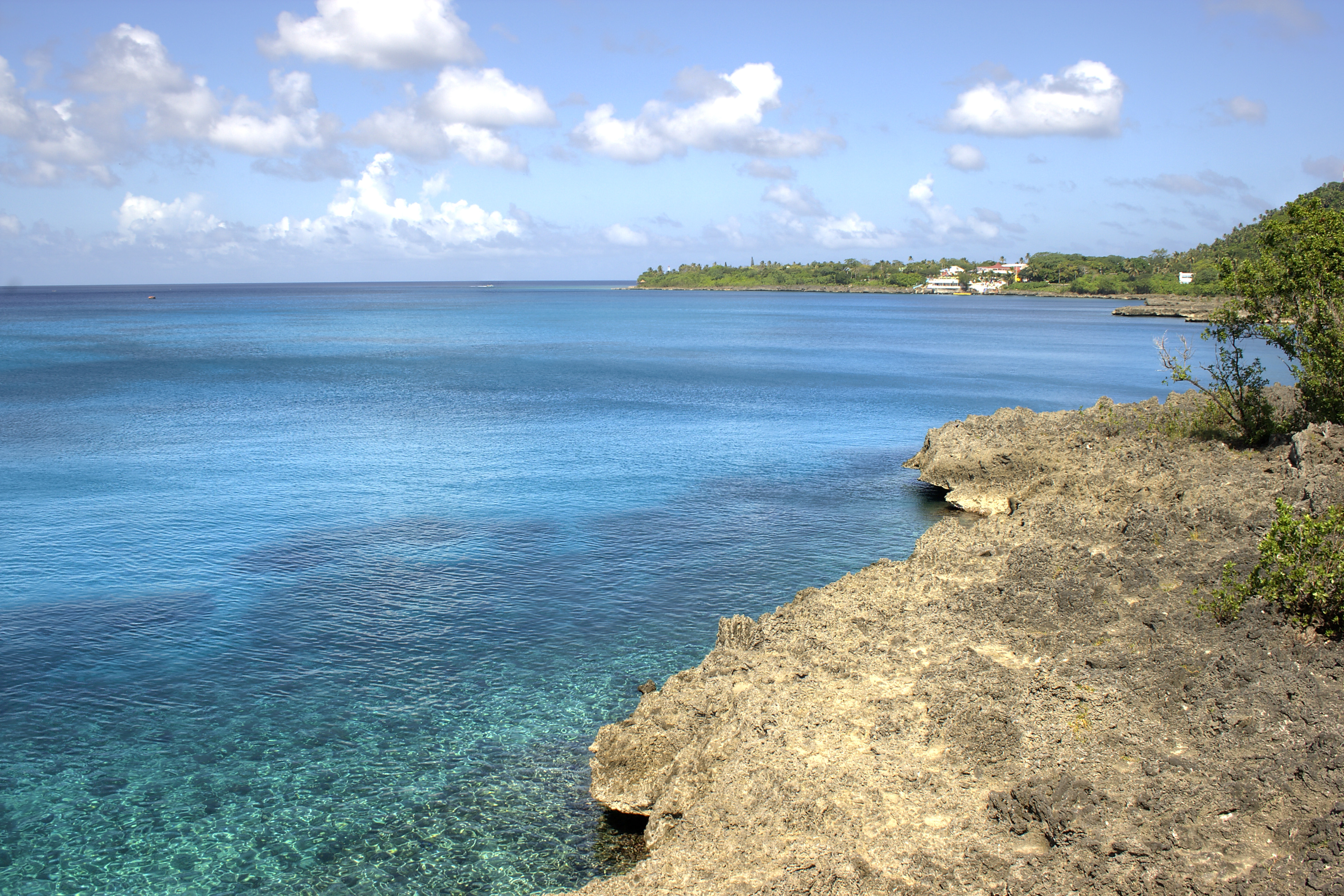 San Andres Isla